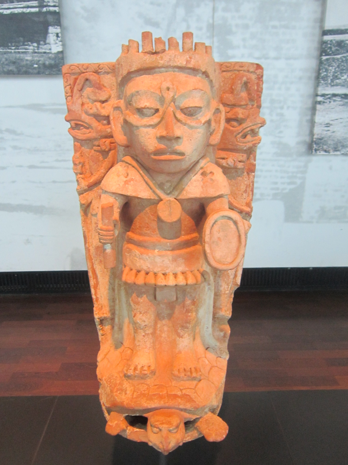 Maya Sculpture of Sun God Standing on a Turtle